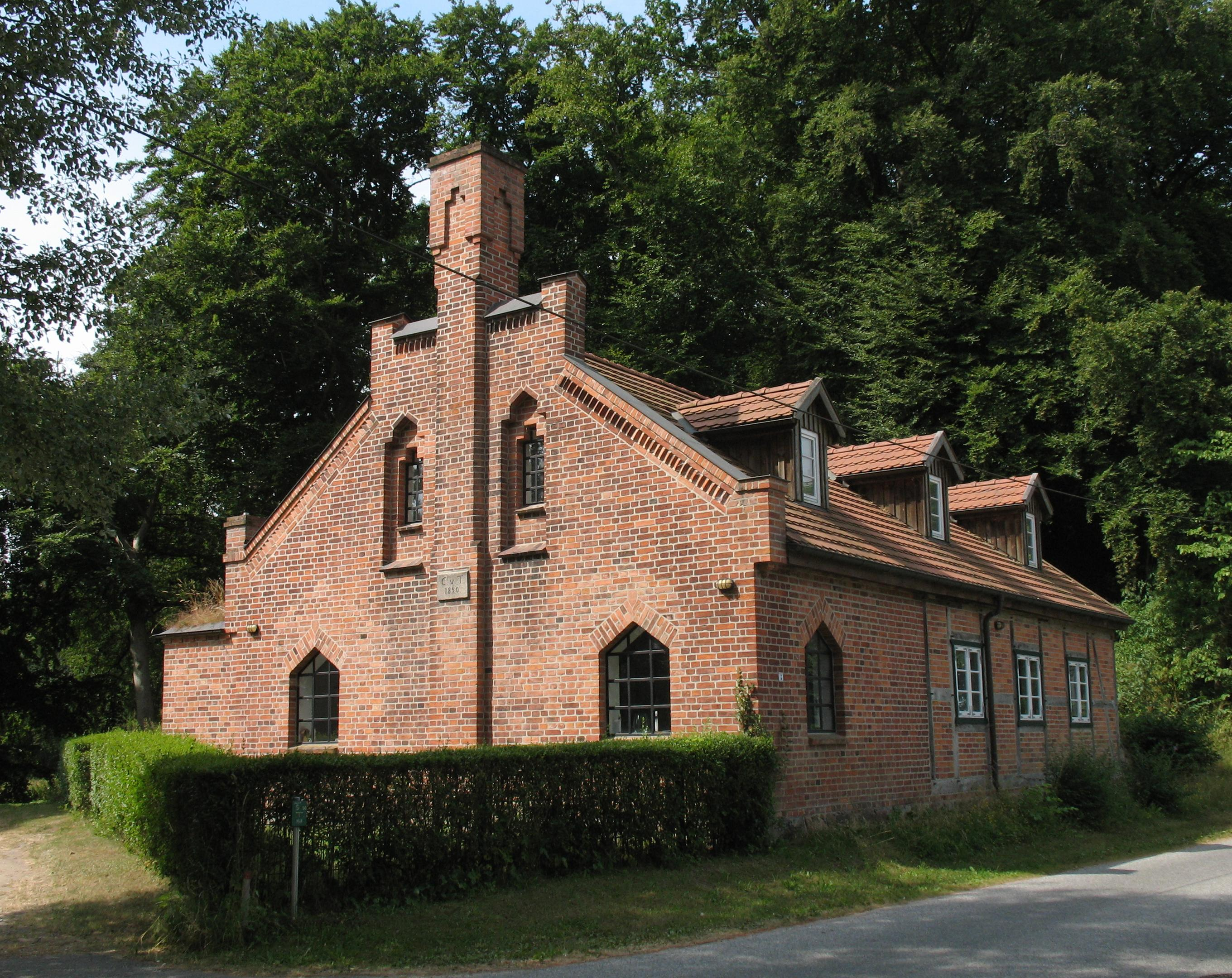 Former Forge in Zarrentin-Boissow in Mecklenburg-Western Pomerania, Germany